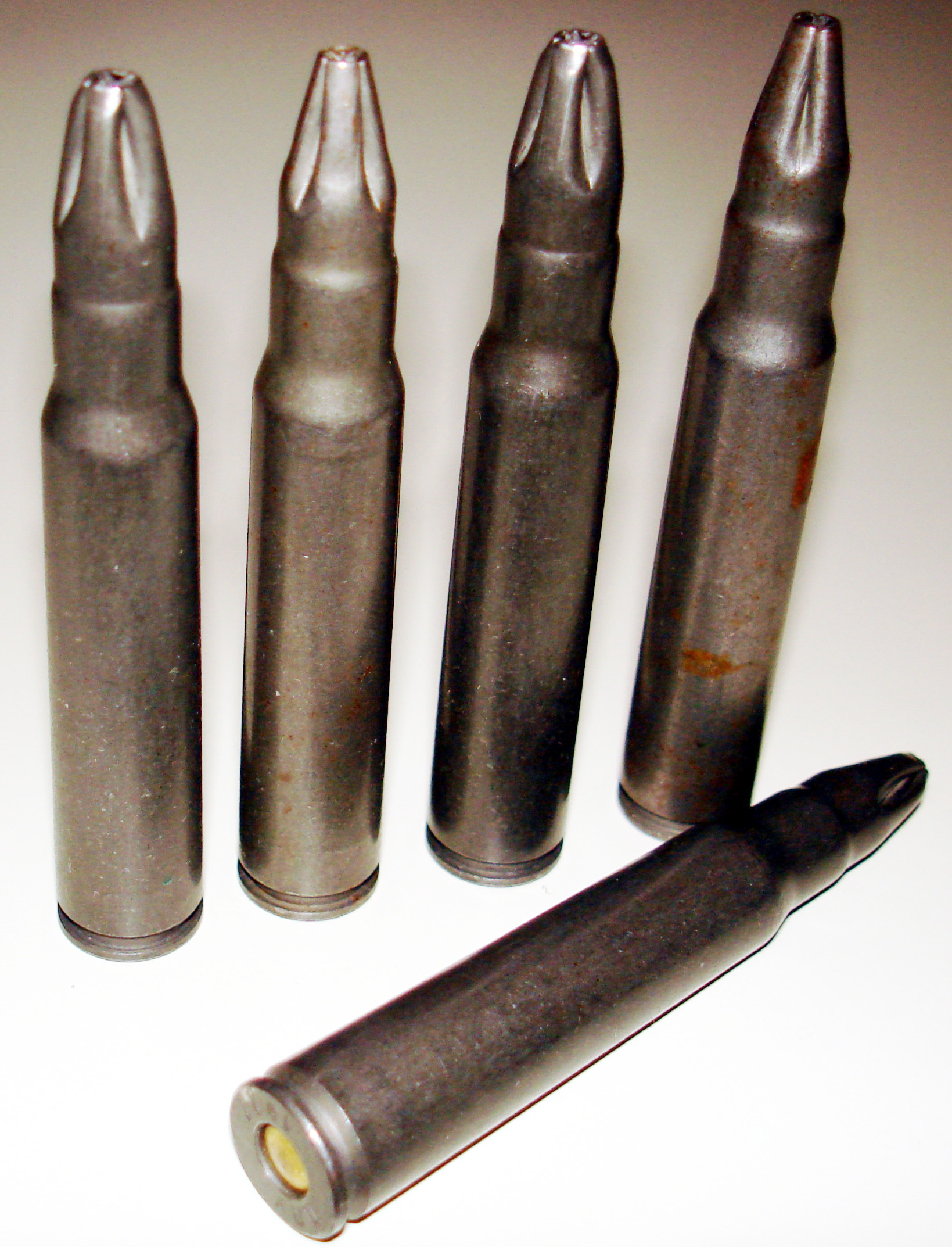 Yugoslavian 7.9 mm (7.92 x 57 mm or 8 x 57 Mauser) blanks. For M-48 (Yugoslavian copy of Mauser K98k).